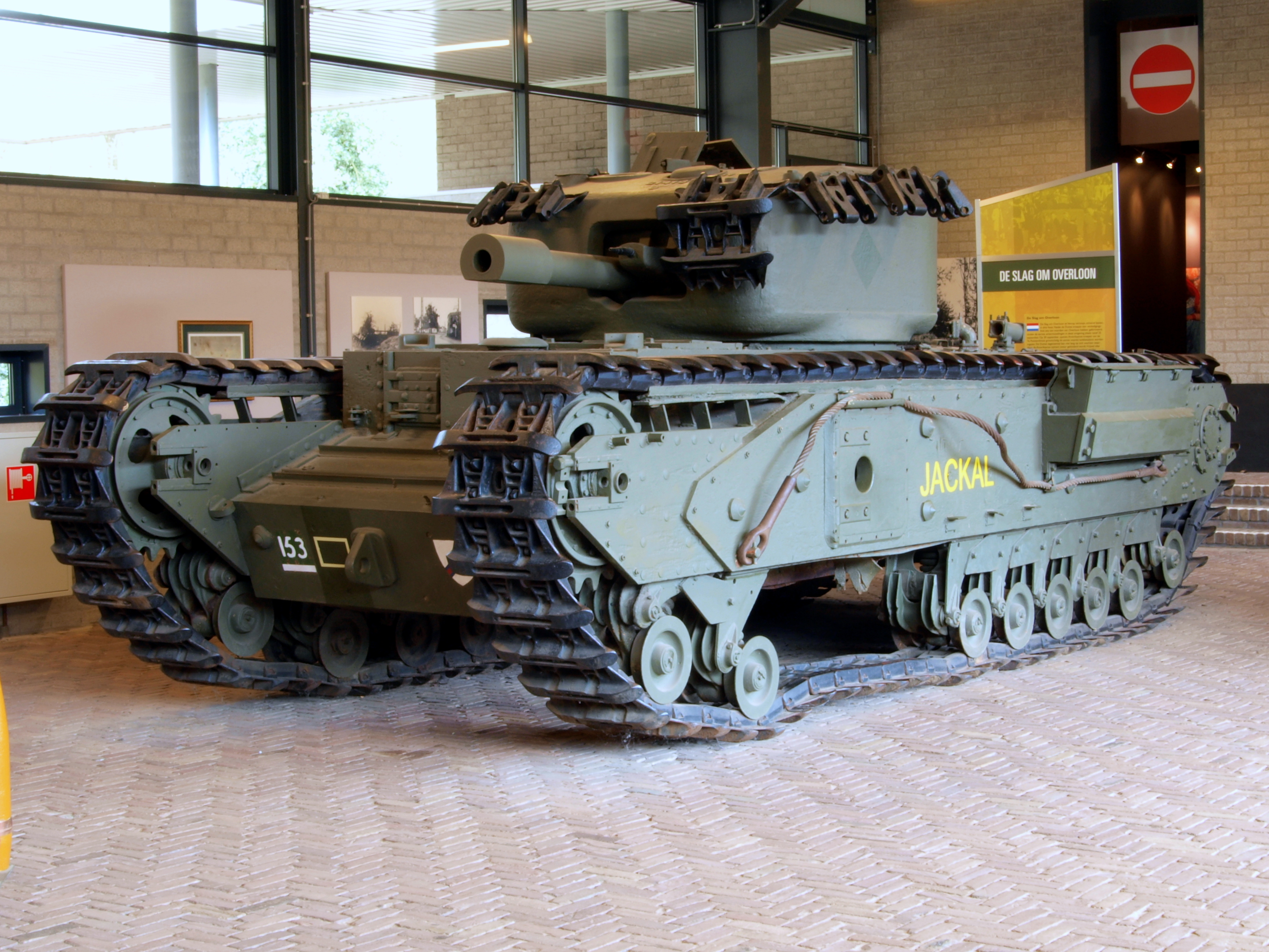 Photographed at the Marshallmuseum - Liberty Park - Oorlogsmuseum Overloon, The Netherlands.